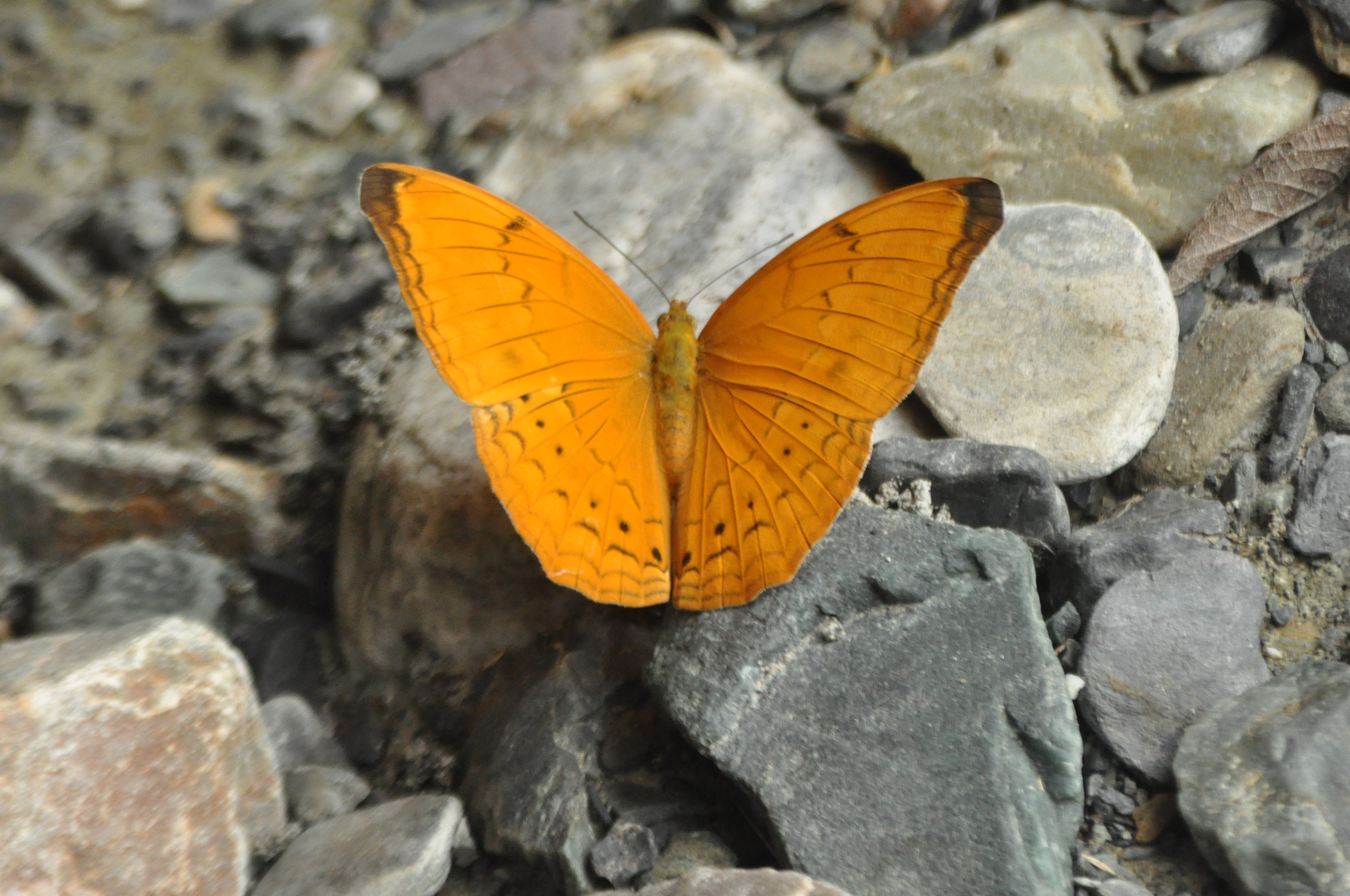 This image was taken in the project Wiki Loves Butterfly. Open wing position of Male of Cirrochroa aoris Doubleday, 1847 – Large Yeoman